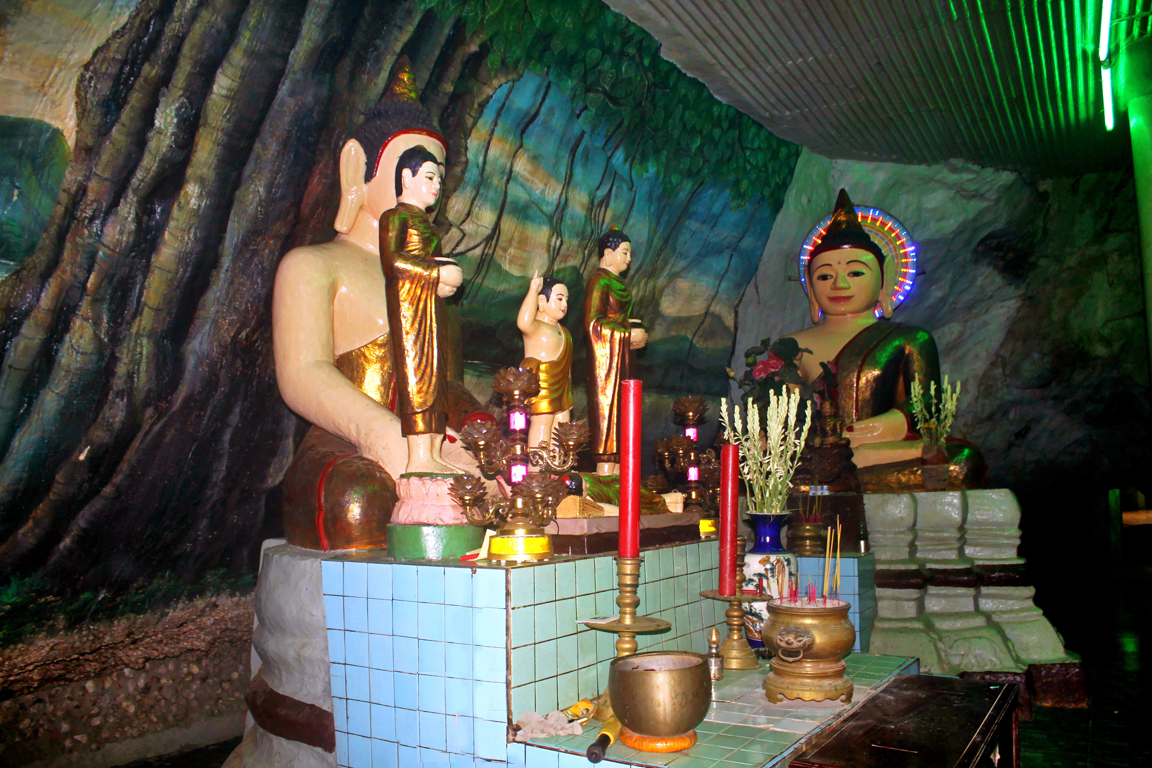 Một số tượng Phật trong chùa Hải Sơn (tục gọi chùa Hang) ở Kiên Lương, Kiên Giang, Việt Nam.